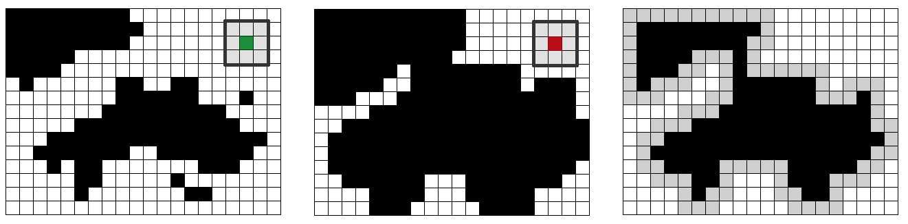 Example of morphological closing on binary picture.